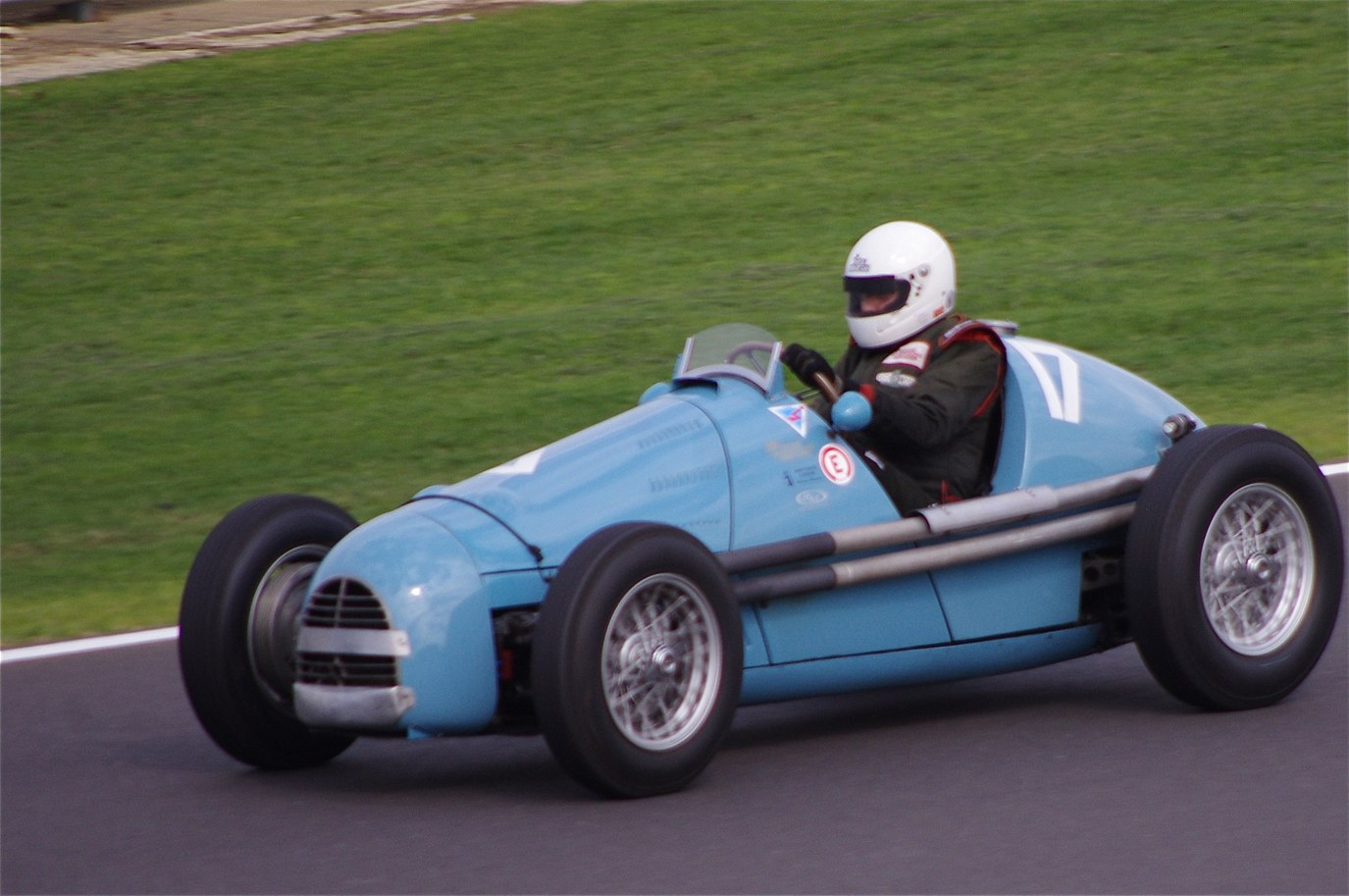 A mid-1950s Gordini T16 racing car, being run at the Silverstone Classic historic race meeting in 2011.